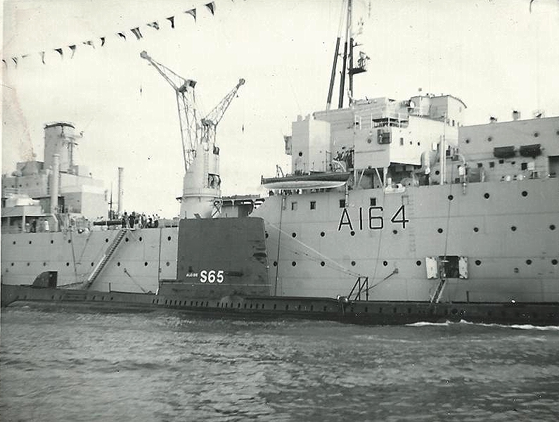 "A" Class Submarine "HMS Alcide", 1,120 tons, launched 1945, as rebuilt with a sail conning tower at Devonport Dockyard during the Plymouth Navy Day, 08/61. The "A's" were designed specifically for Pacific operations and were the best submarines Britain produced in WWII. "Alcide" is moored next to the Submarine Depot Ship "HMS Adamant" (12,700 tons, launched 1940). Scanned photograph taken with a simple Brownie 127, hence dubious quality.